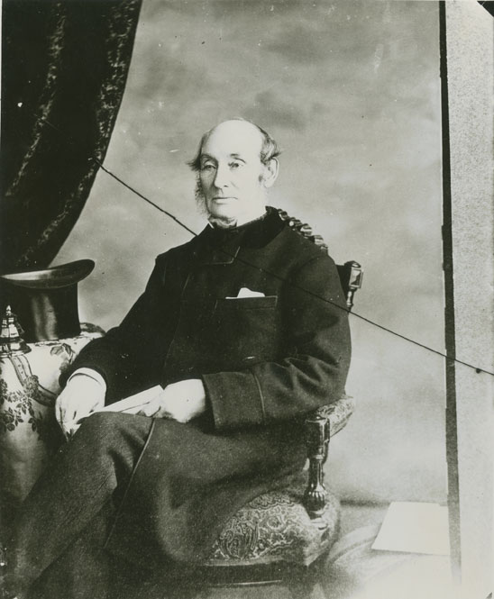 Hon. William Annand, Notman Studios